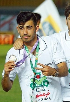 Danial Esmaeilifar